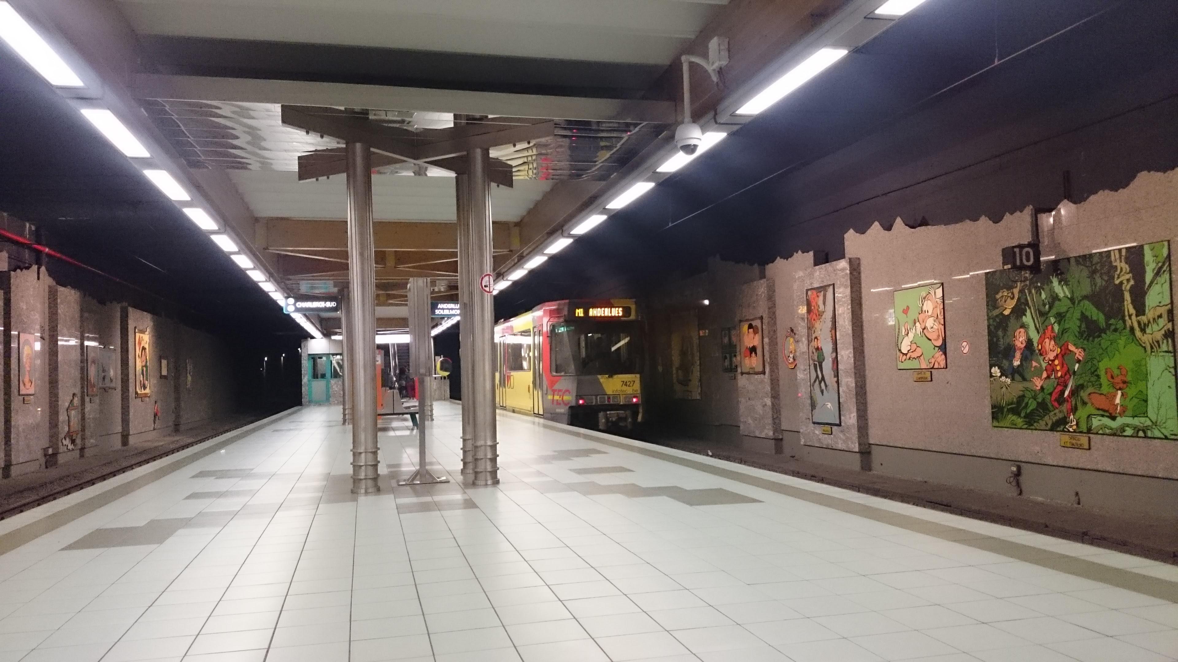 Janson Metro Station, Charleroi